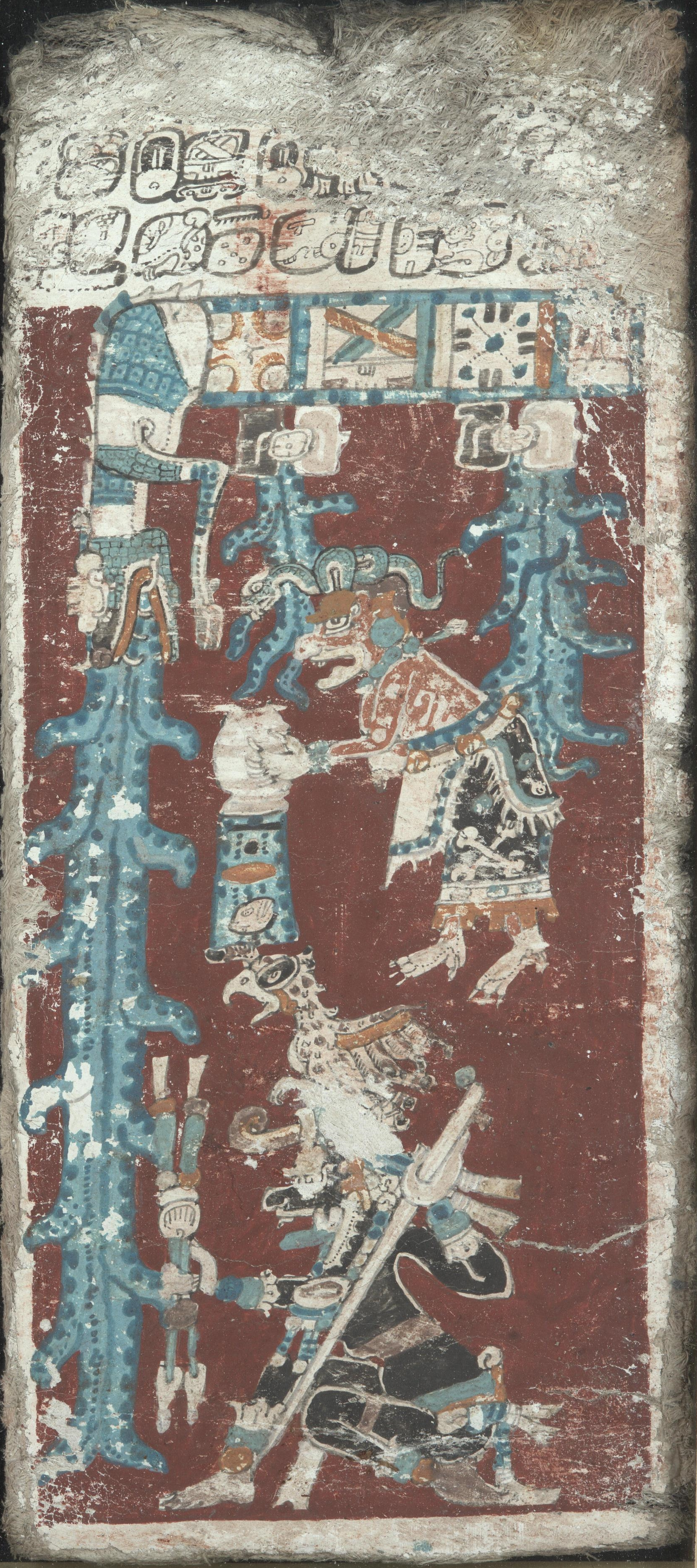 Codex Dresdensis page 74, true colour, from the library website